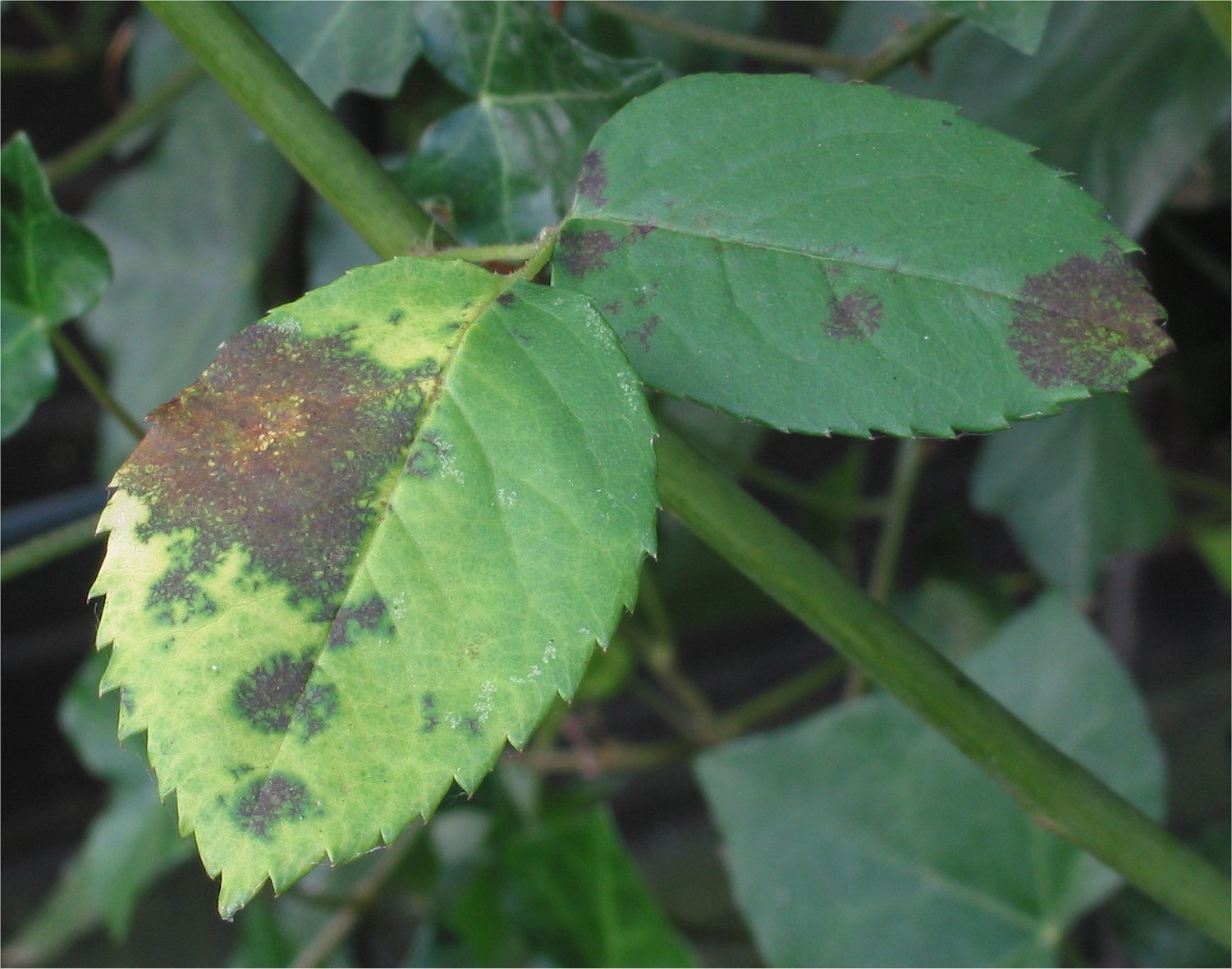 Diplocarpon rosae on 'Zéphirine Drouin'